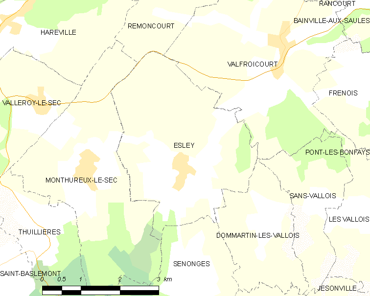 Map of French municipality Esley